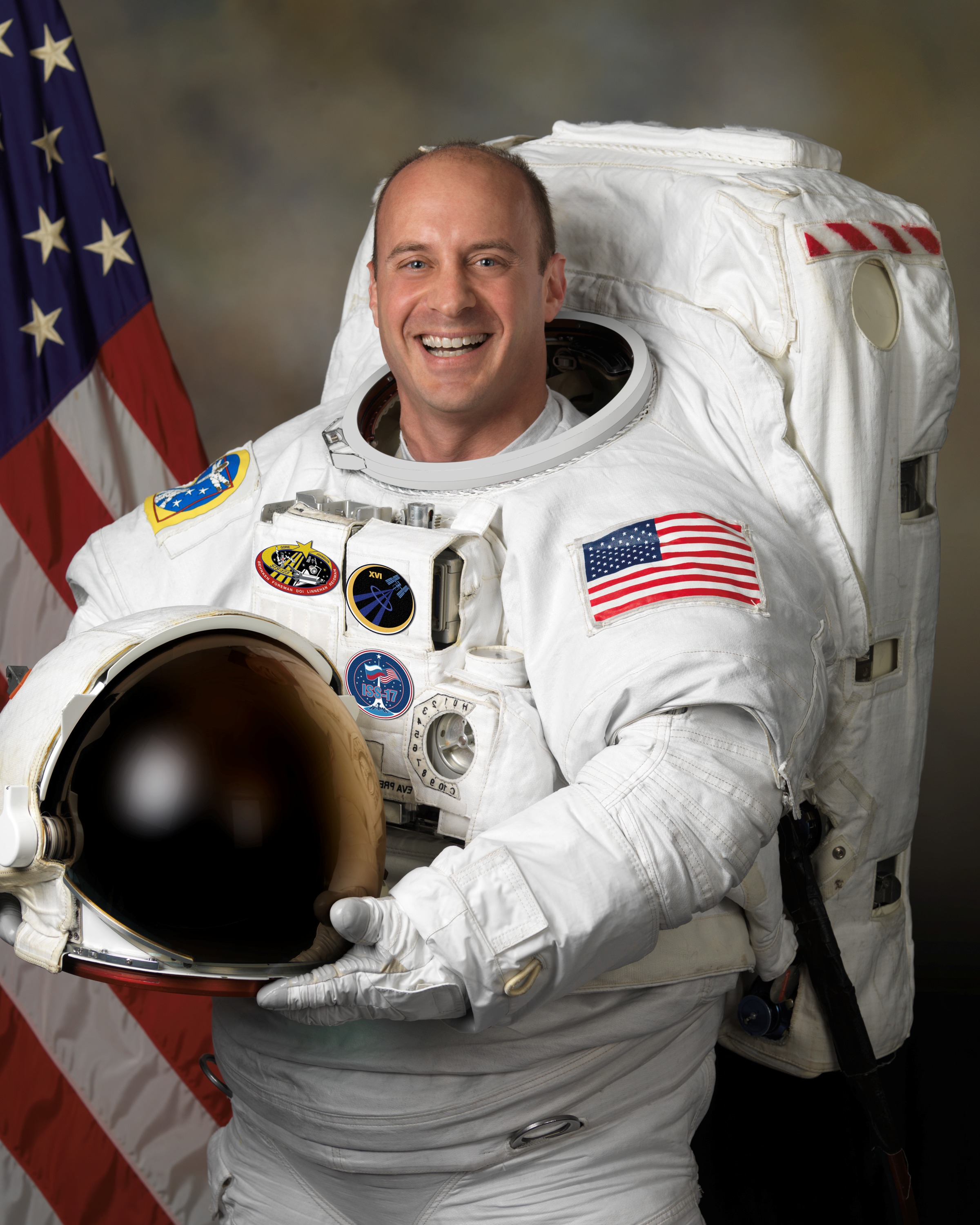 Official portrait image of NASA astronaut Garrett Reisman.